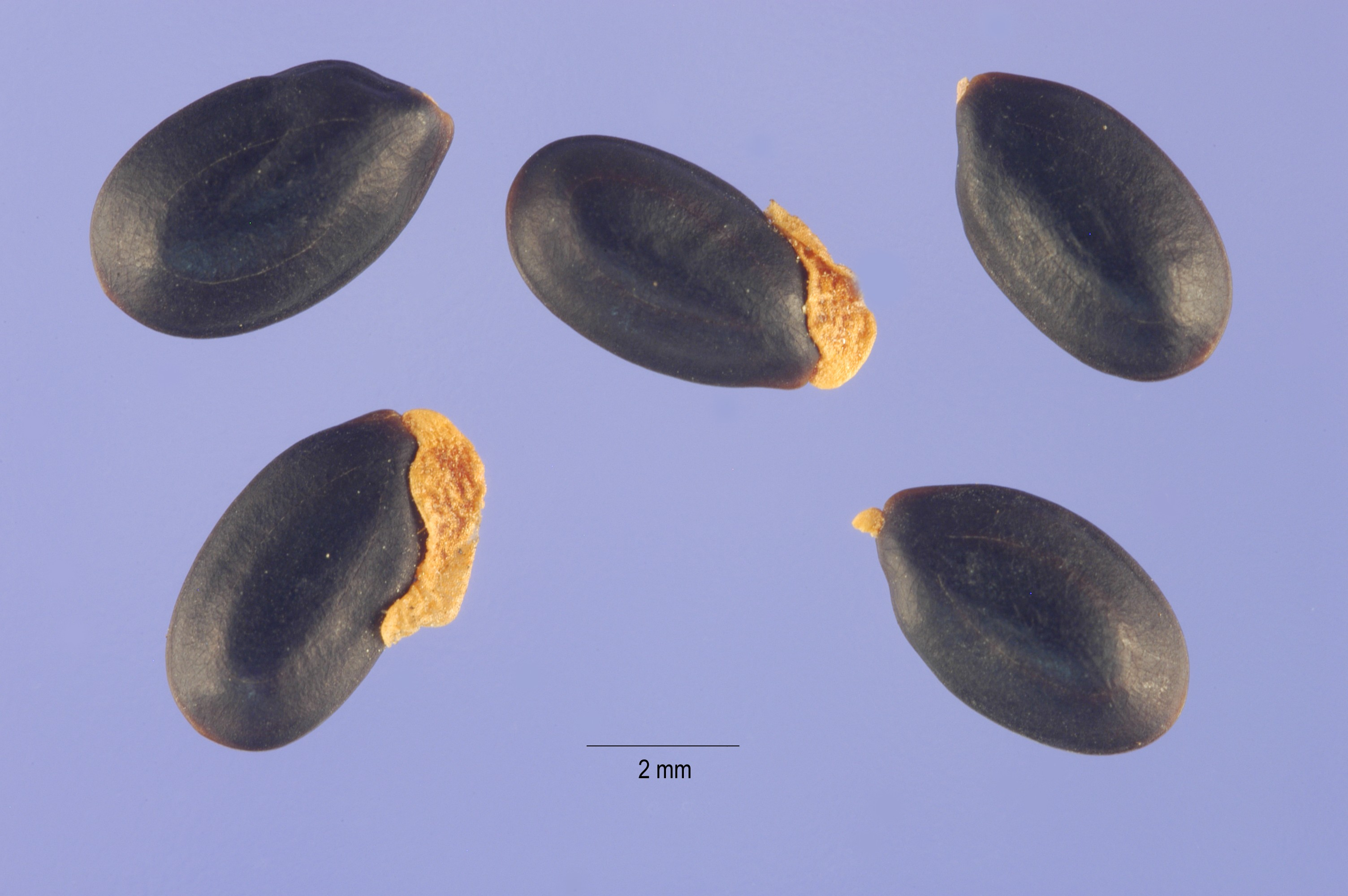 Silver Wattle. Seeds. Bandrole, India.